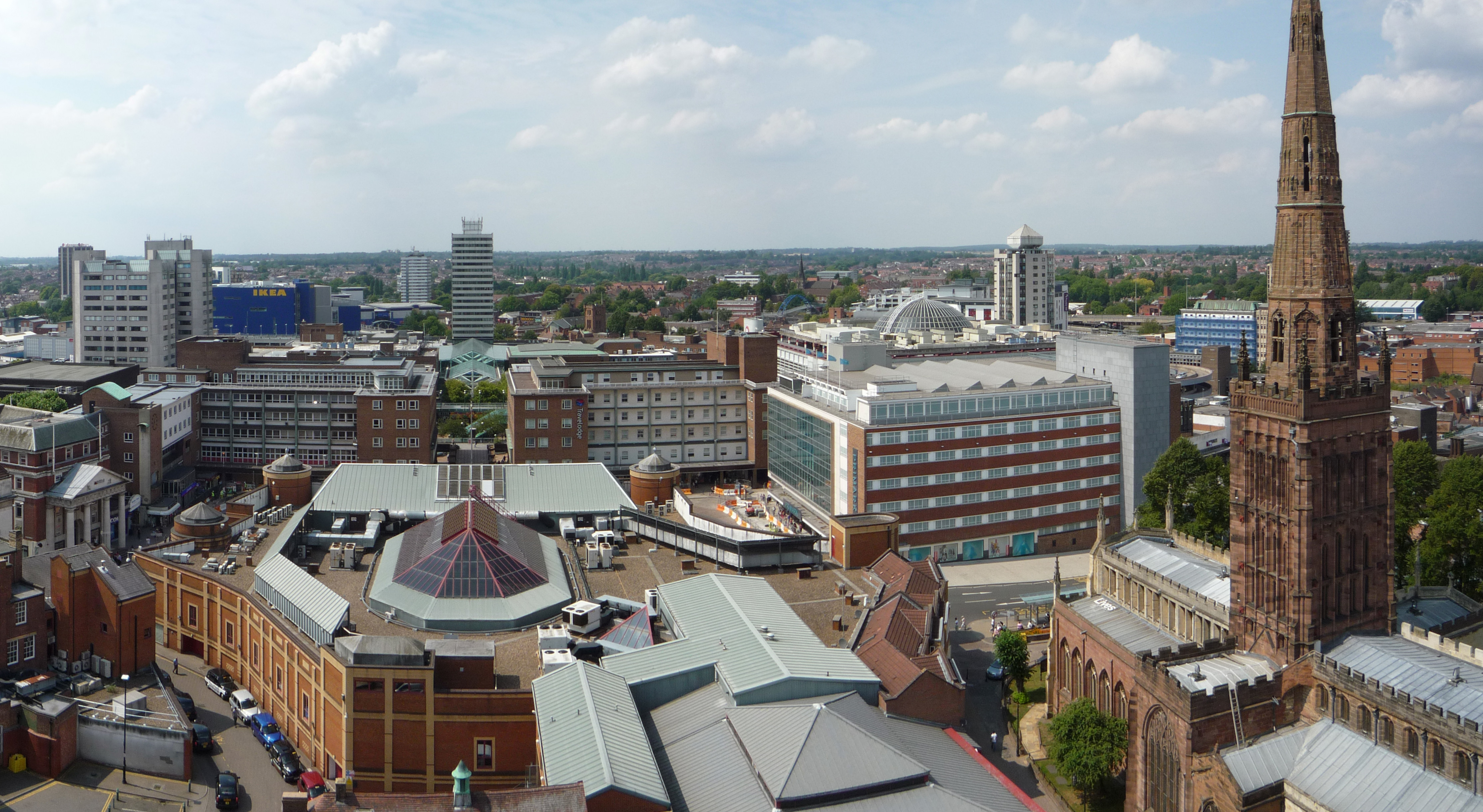 Coventry Cathedral Tower panoramic views, taken on 3rd August 2011 by Si (User:mintchociecream). This version released into the public domain via Wikicommons on 25 Aug 2011. West view - towards Broadgate